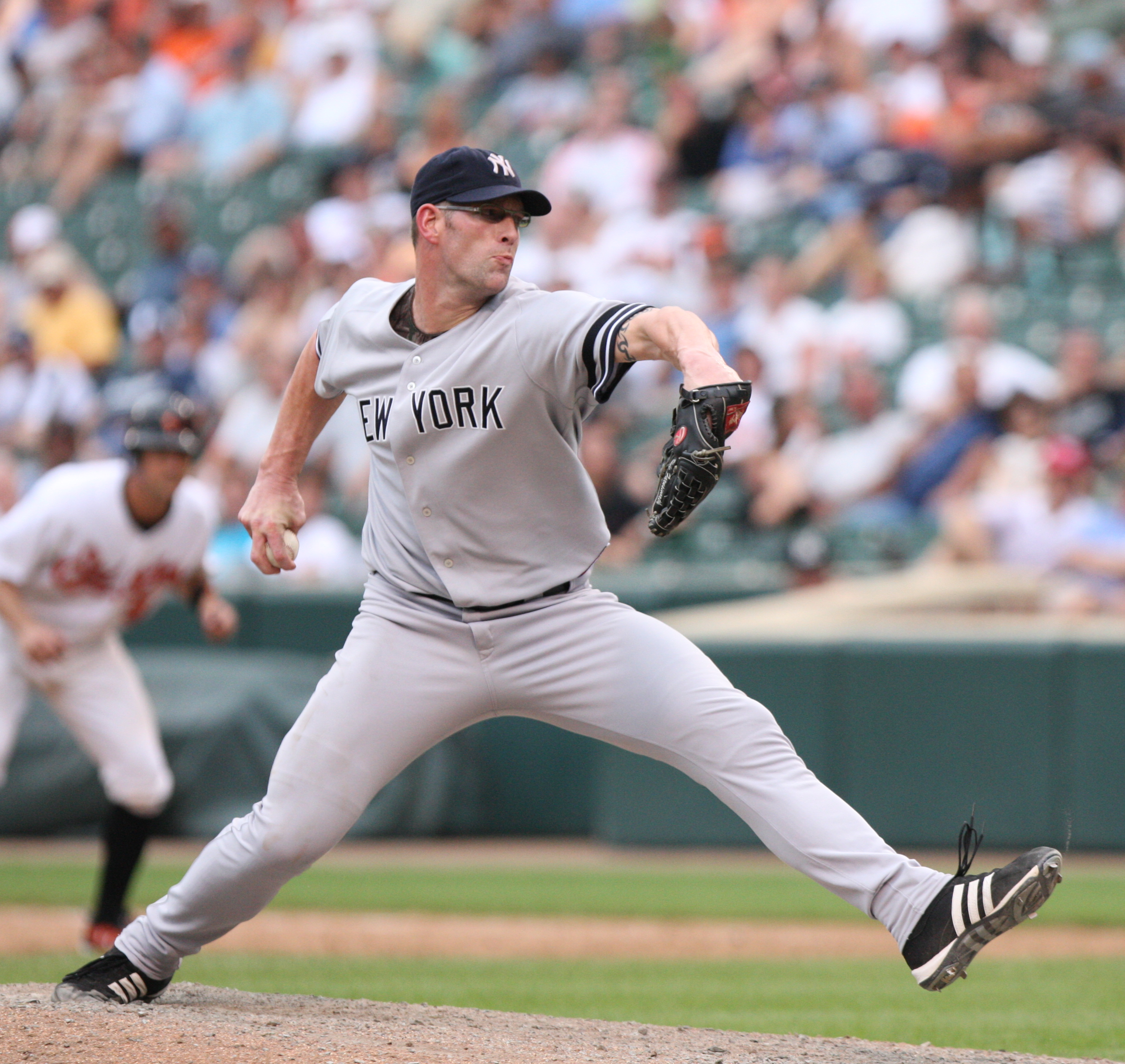 Kyle Farnsworth